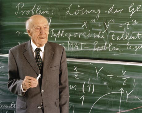 picture of the mathematician Hanfried Lenz